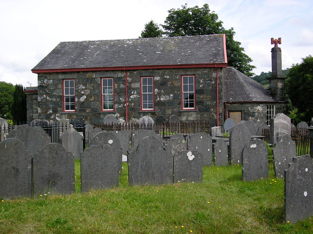 Brithdir Independent Chapel. built in 1860 and still in use as a chapel